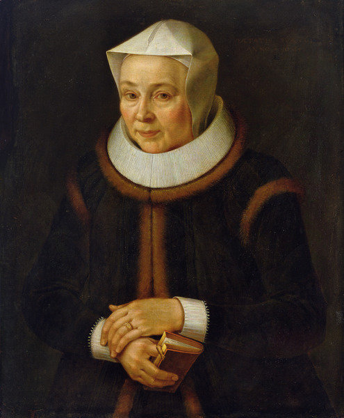 Portrait of the Artist's Mother